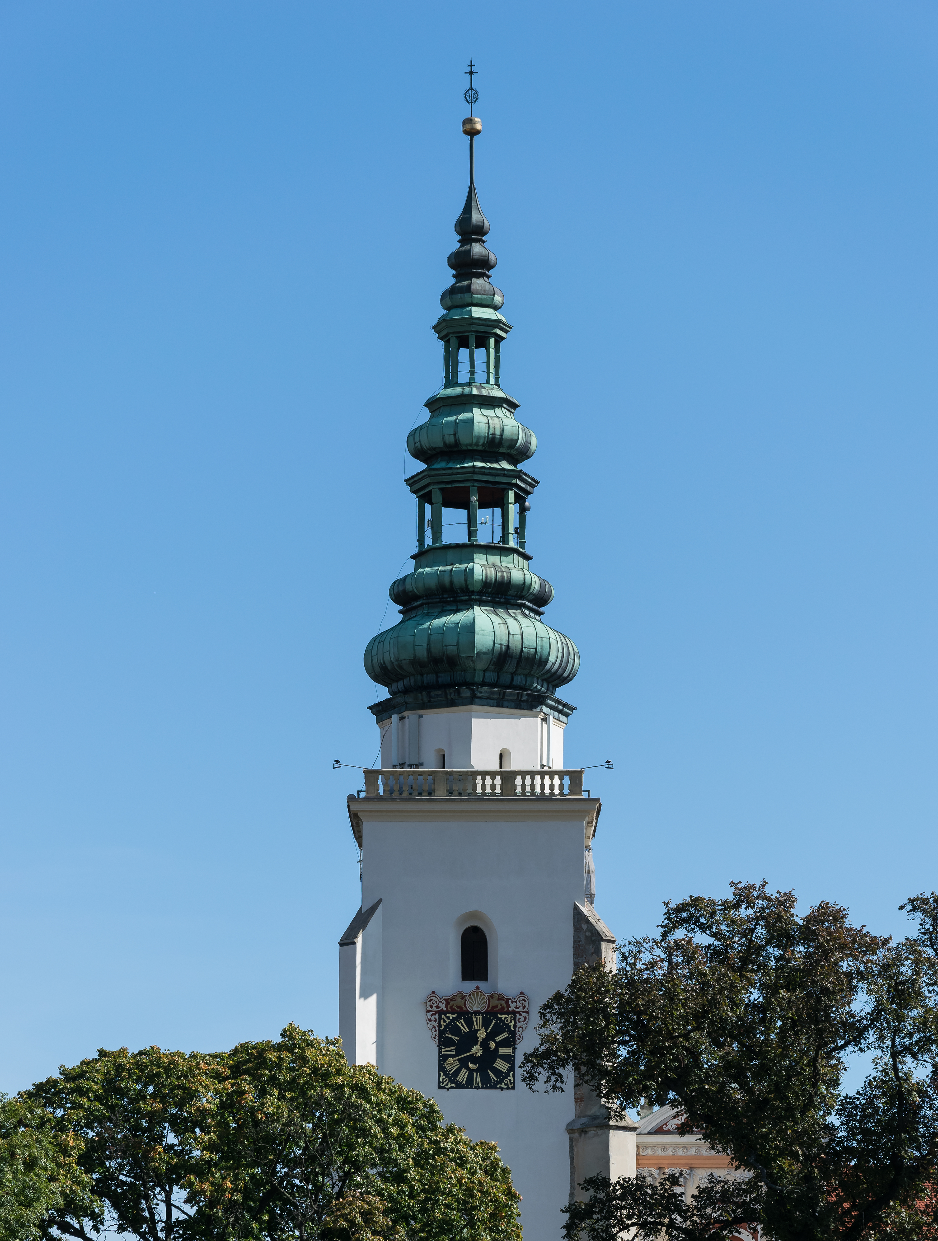 Church of St. Mary in Henryków